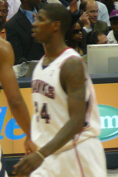 User:Chrisjnelson agreed to license this image of Marvin_Williams.jpg under a free attribution license.